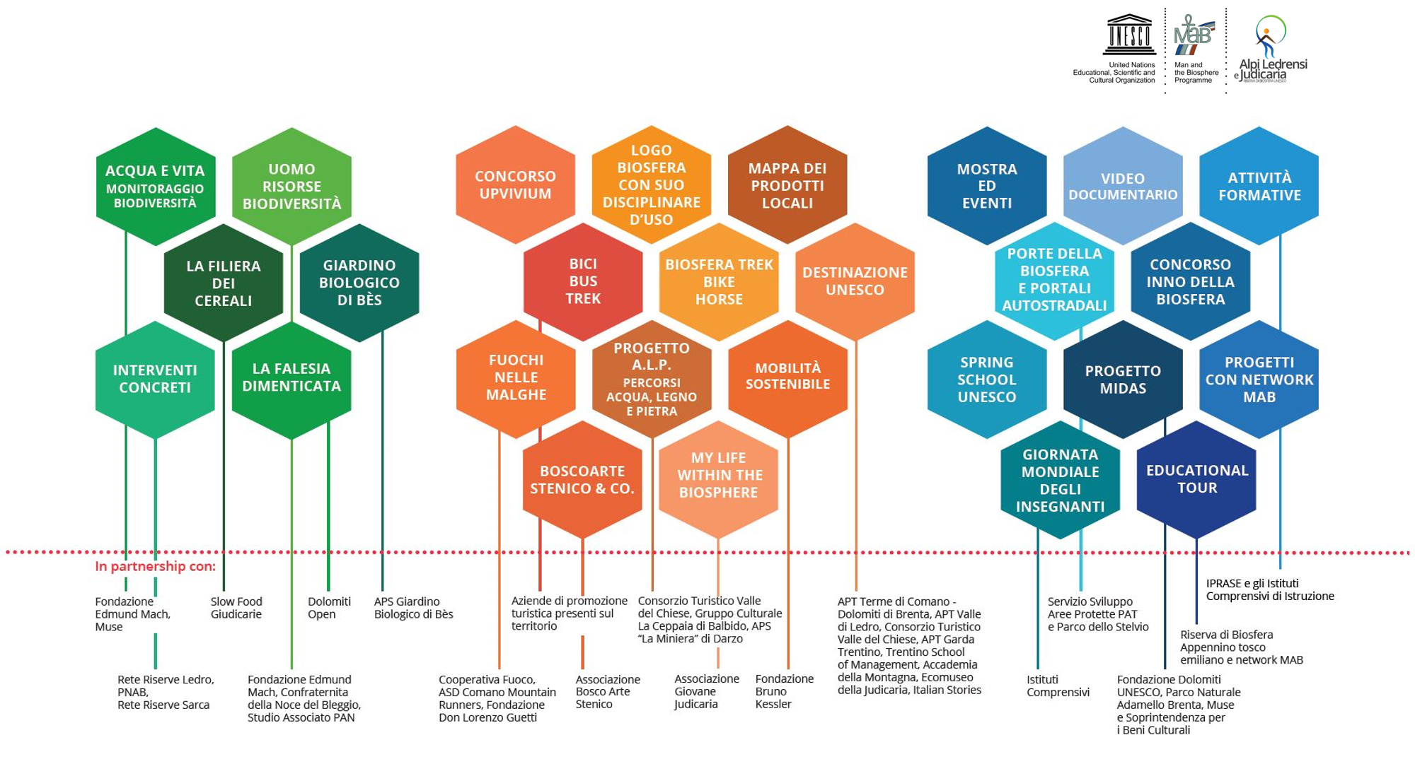 I progetti strategici e condivisi dalla Riserva di Biosfera MAB UNESCO Alpi Ledrensi e Judicaria (aggiornati a dicembre 2019). Per maggiori informazioni visita il sito